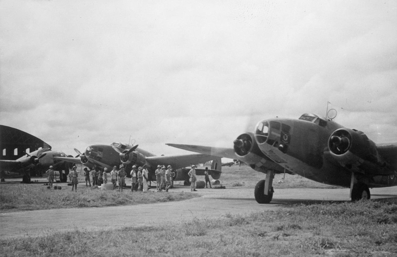 Royal Air Force Operations in the Far East, 1941-1945. A Lockheed Hudson Mark VI of No. 194 Squadron RAF taxies past other aircraft of the squadron at Palam, India.